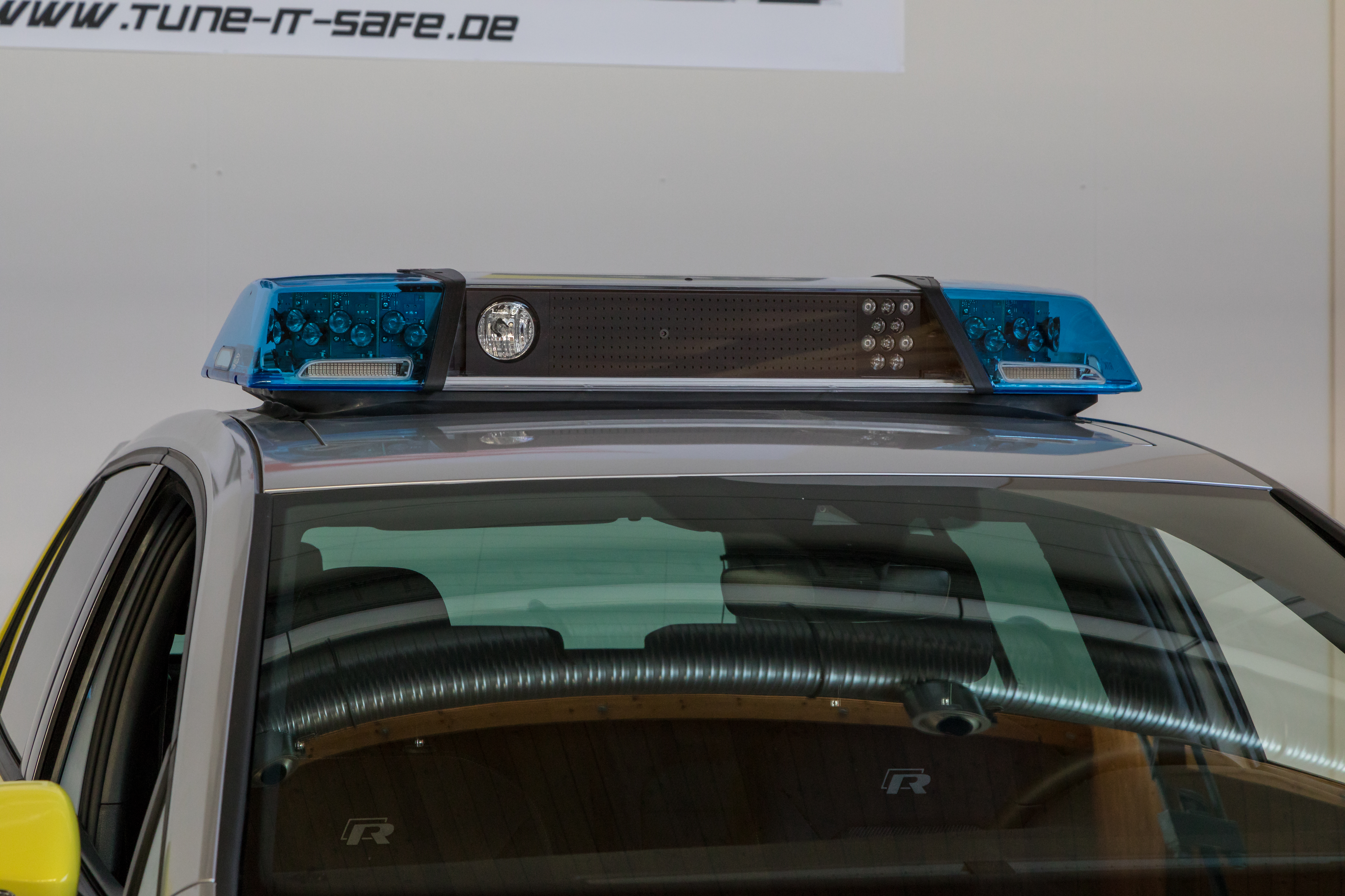 Tuning World Bodensee 2018